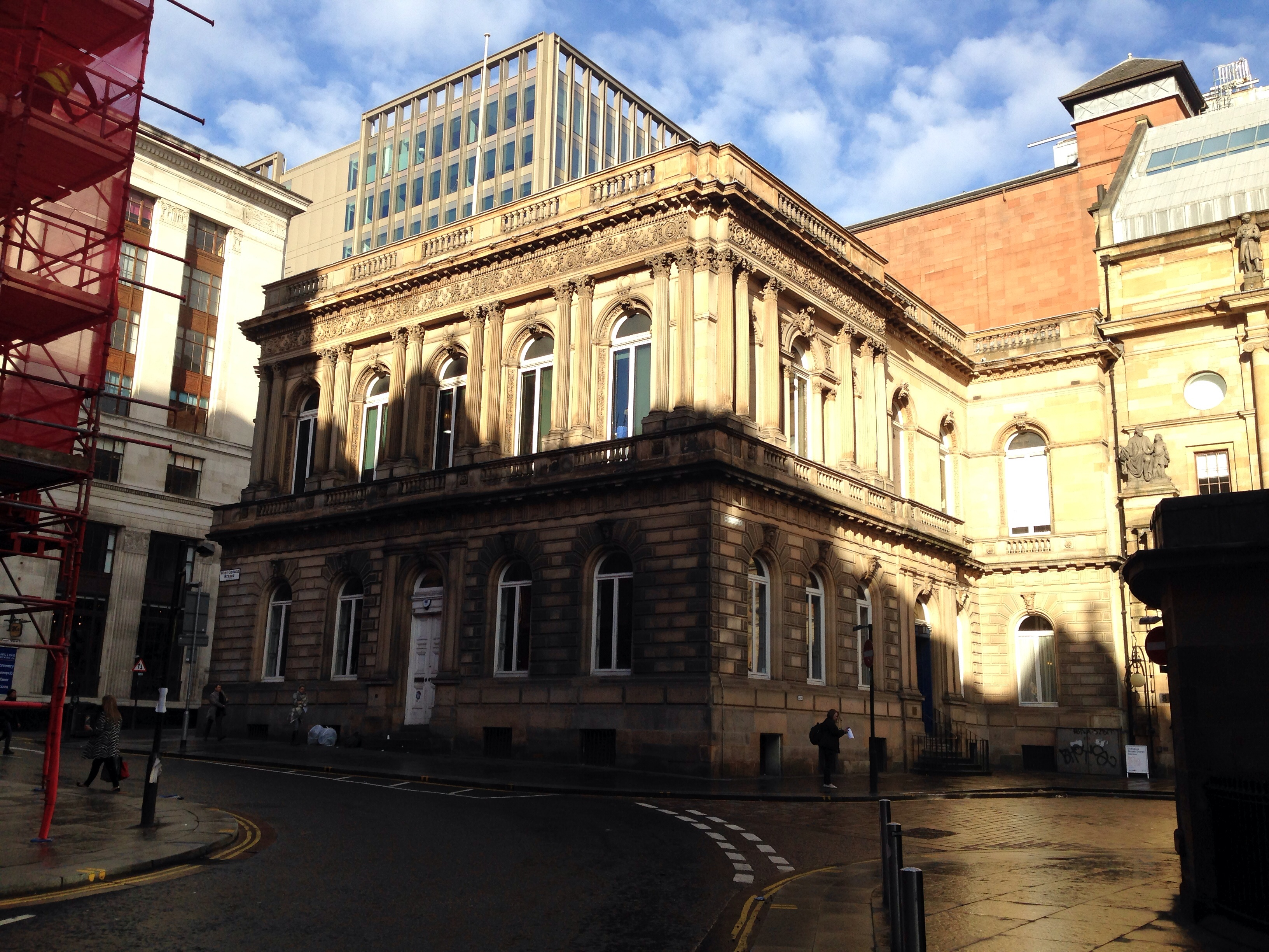 Category A listed LB33235 at 68 WEST GEORGE STREET, 12 NELSON MANDELA PLACE, ROYAL FACULTY OF PROCURATORS